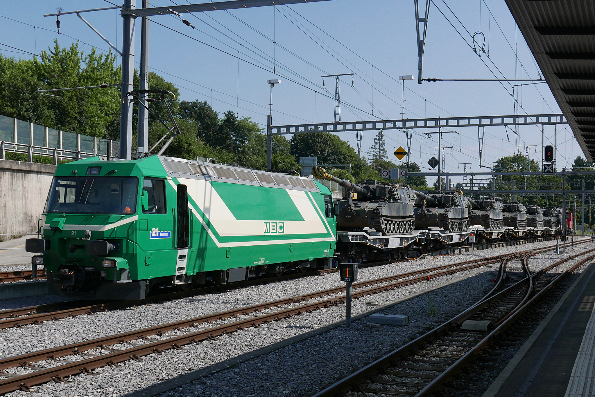 MBC Ge 4/4 21 at Morges train station ahead of a military train to Bière-Casernes.